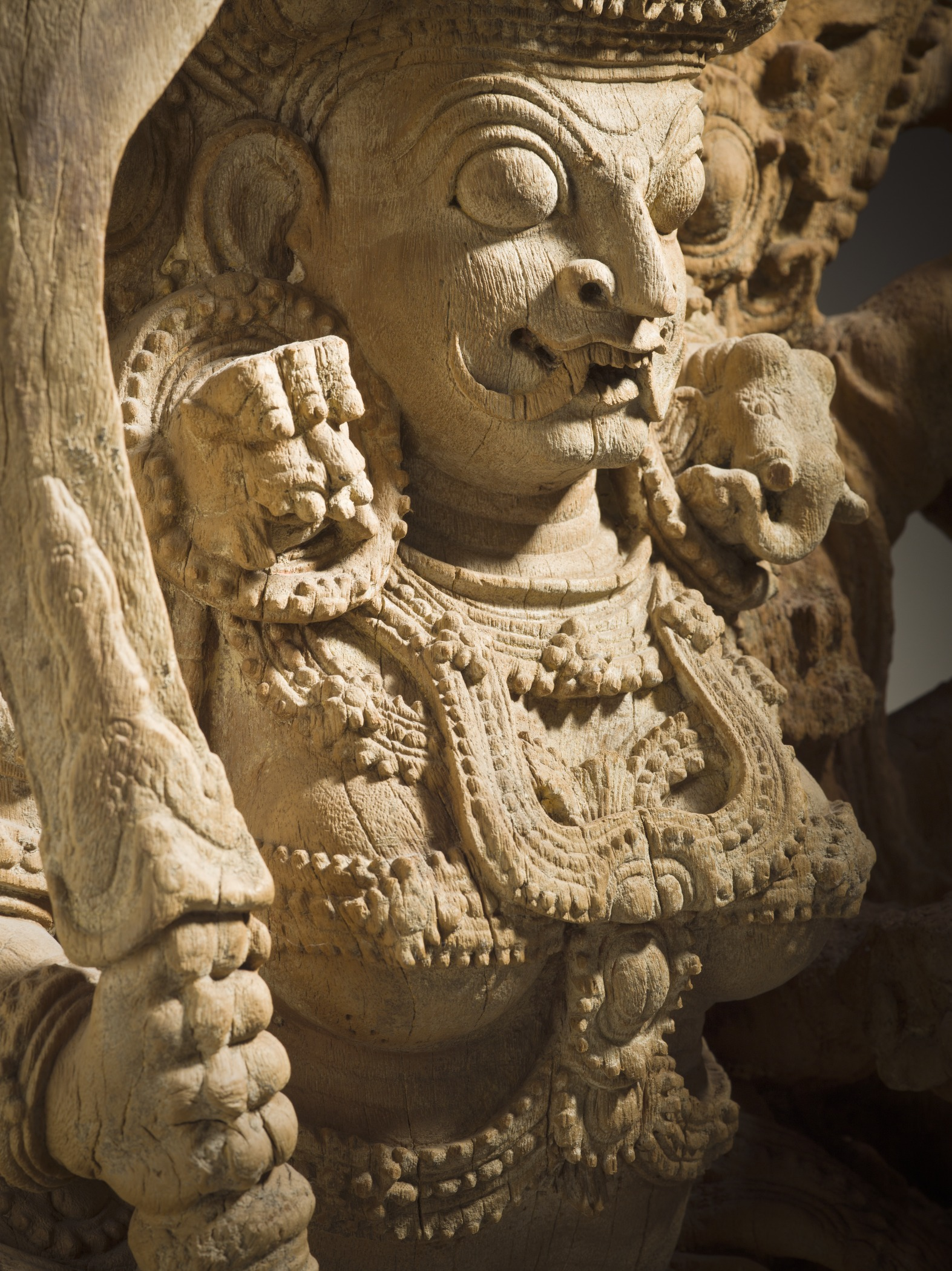 India, Kerala, circa 17th century Sculpture Jackwood with traces of paint Gift of Dr. S. Sanford and Mrs. Charlene S. Kornblum (M.2011.5) South and Southeast Asian Art Currently on public view: Ahmanson Building, floor 4